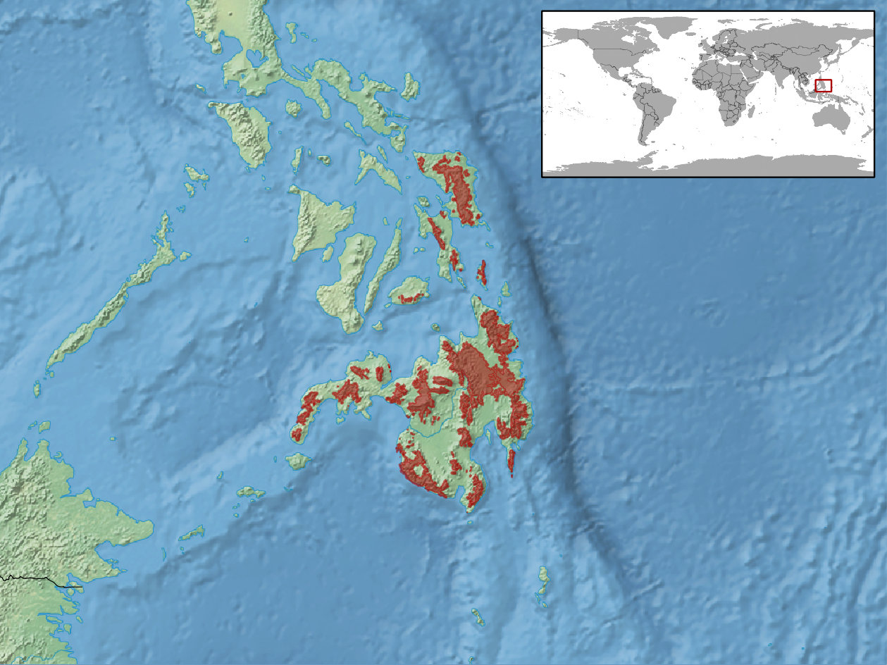 geographic distribution of Draco mindanensis (Native: Philippines)